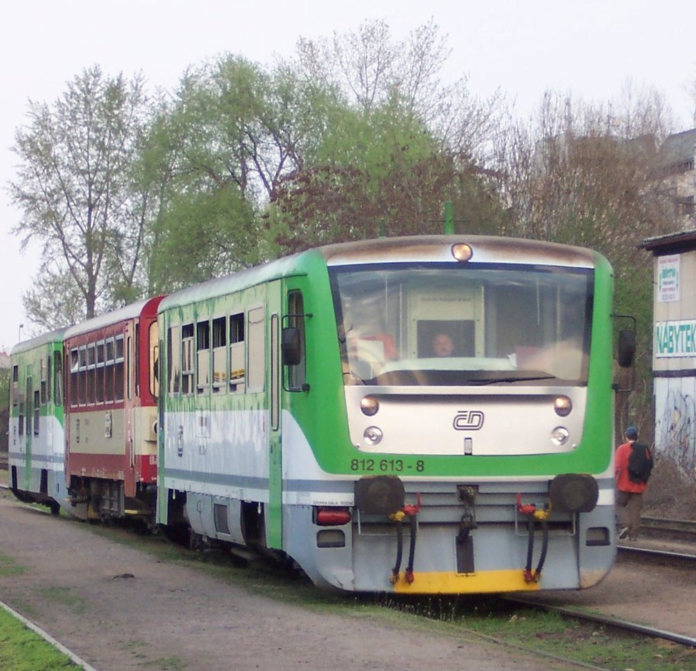 Czech railcar class 812 Esmeralda.